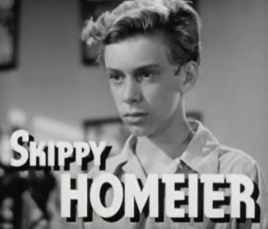 Cropped screenshot of Skip Homeier from the trailer for the film Boy's Ranch.